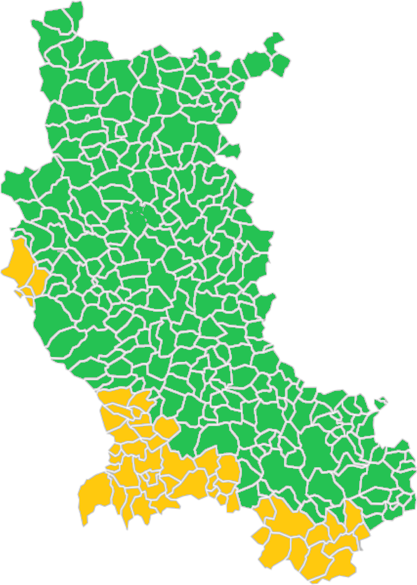 • Linguistic map of french department of Loire (42). Red : Occitan language ; Green : Arpitan language. • Carte linguistique du département de la Loire (42) : En rouge : Occitan (dialecte auvergnat) ; en vert la partie arpitane. Sources : "De l'Auvergne, 2600 ans au coeur de la Gaule et de la France centrale", Pierre Bonnaud, éditions Créer, 2003.